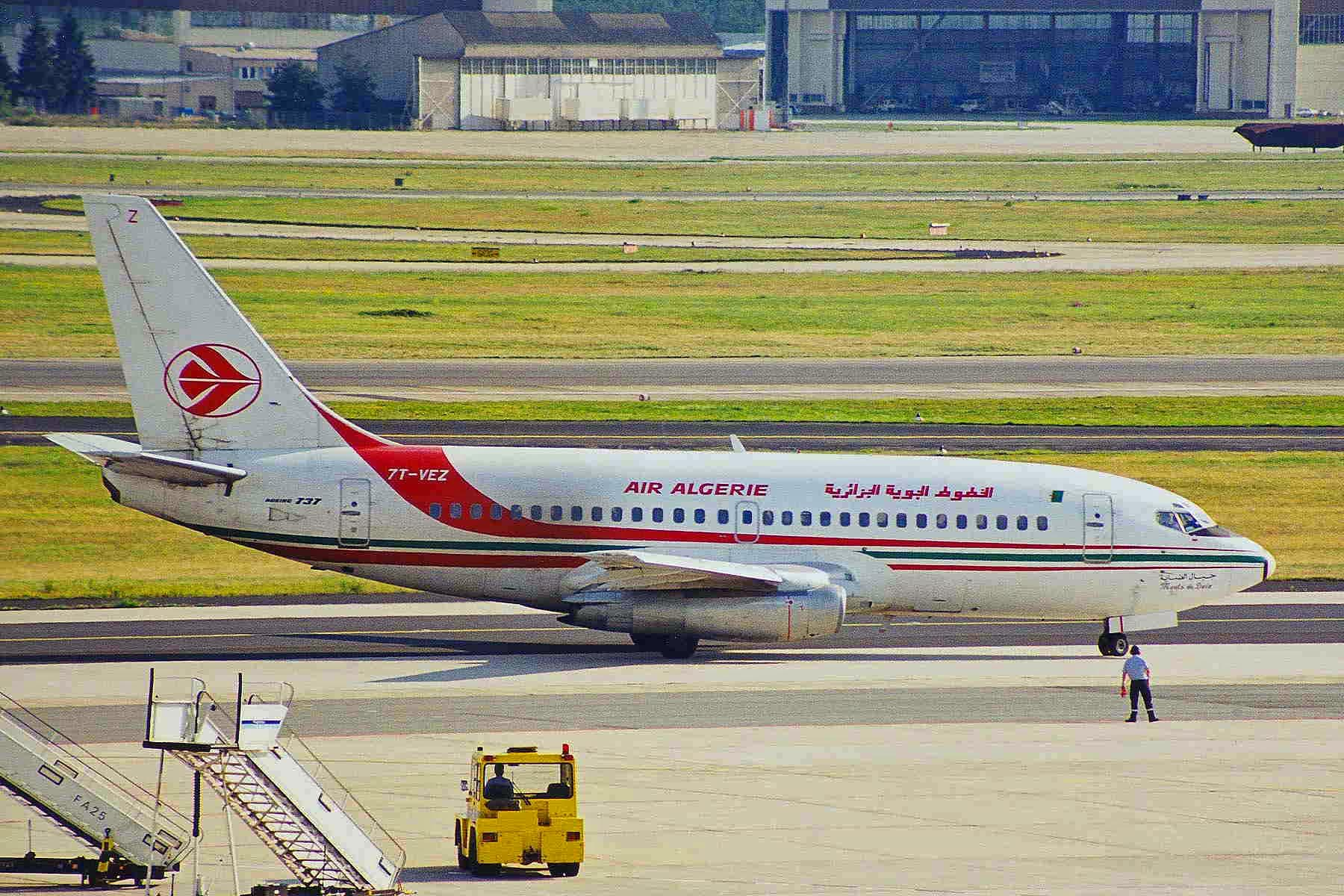 7T-VEZ (pictured here) on August 29 1999